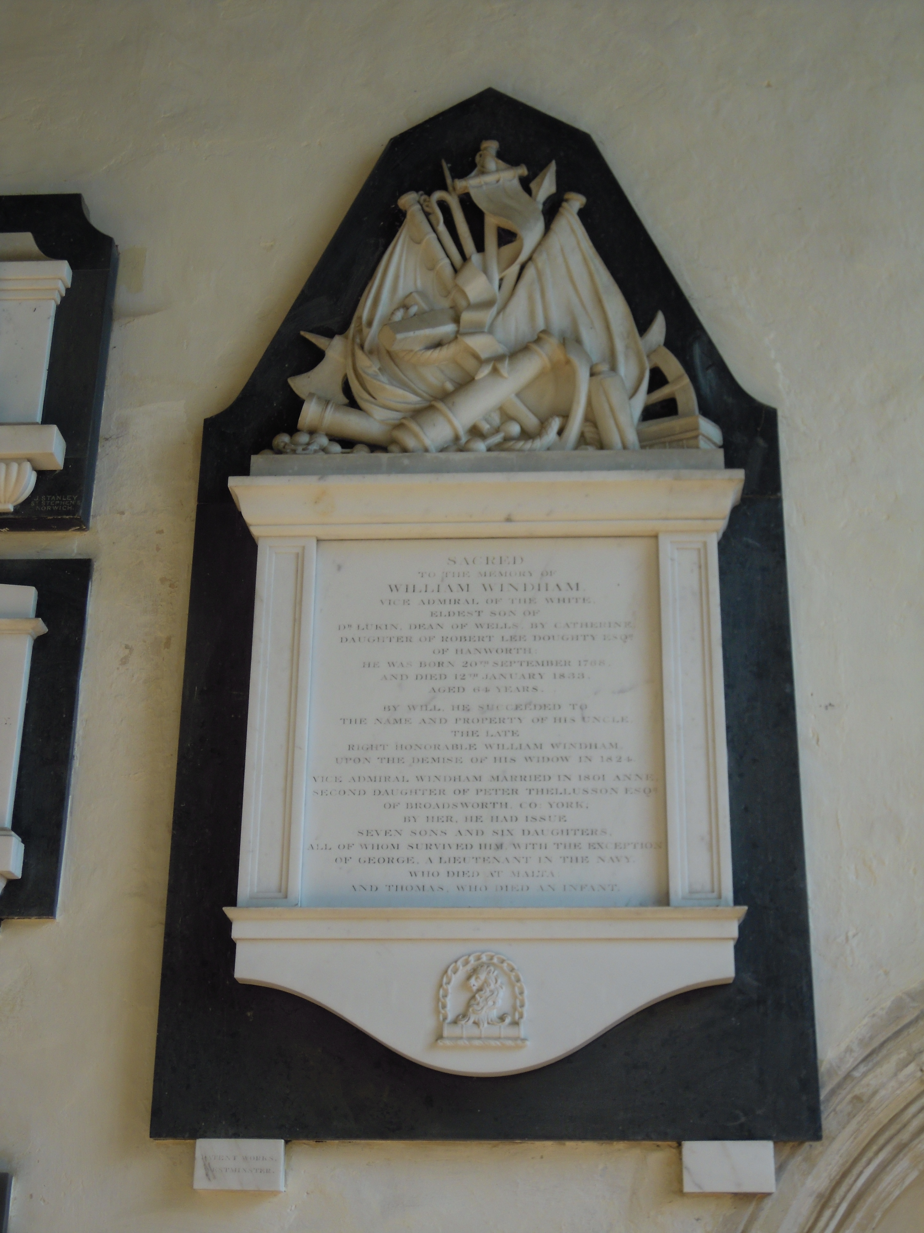 Memorial Plaque to Vice Admiral William Lukin inside Saint Margaret's Church in the grounds of Felbrigg Hall, Norfolk, England